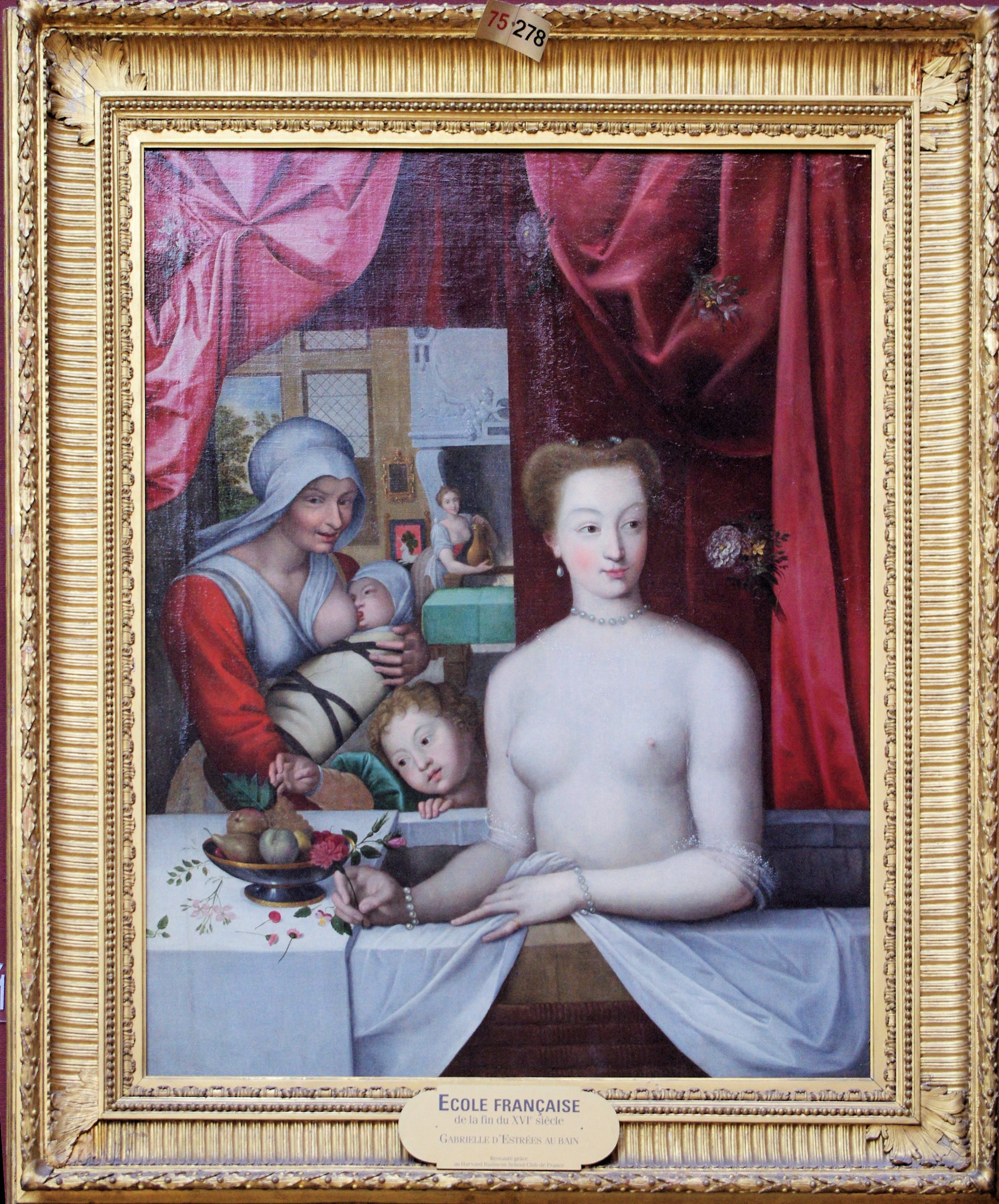 Another School of Fontainebleau painting of Gabrielle d'Estrées bathing -- very similar to the one of her and her sister in the Louvre. Chantilly. Gabrielle d'Estrées (1573-1599) was the mistress of King Henry IV of France.